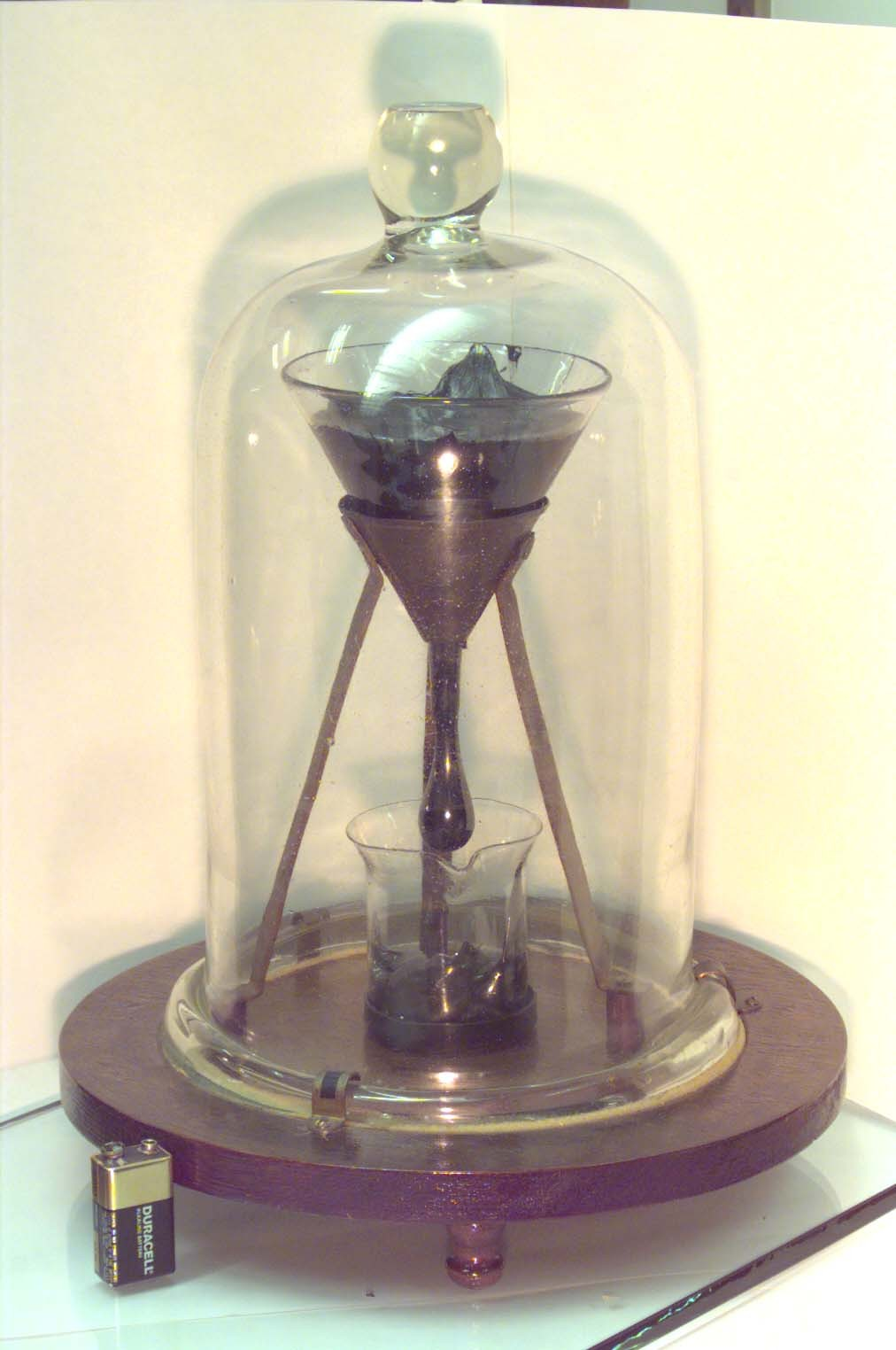 Picture of the Pitch Drop Experiment at the University of Queensland, with 9-volt battery for size comparison